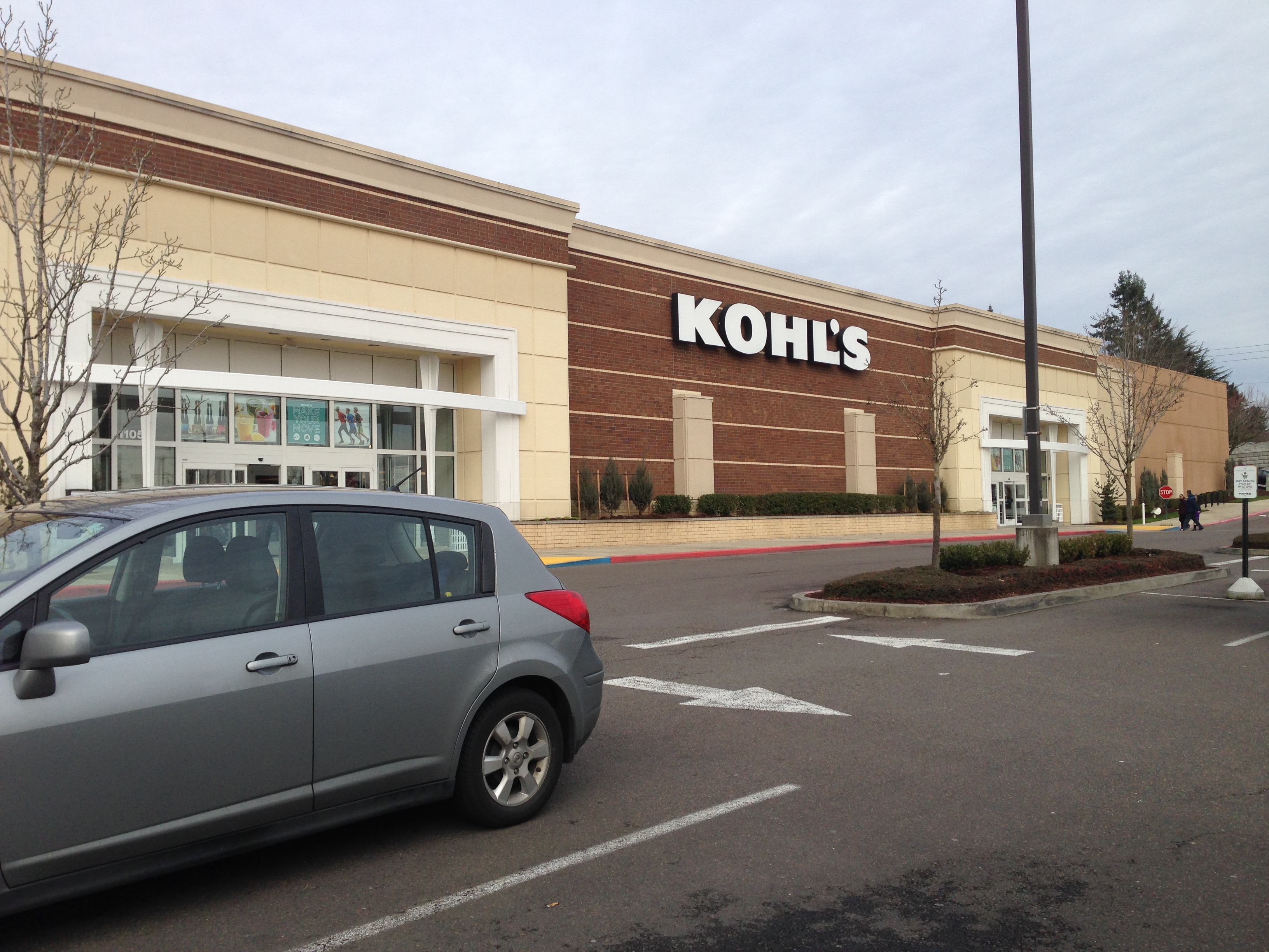 Kohl's Corporation, d.b.a. Kohl's, is an American department store retail chain. The first Kohl's store was a supermarket founded by Maxwell Kohl in Milwaukee in 1946. The company's first department store opened in 1962. British-American Tobacco Company took a controlling interest in the company in 1972 and in 1979 the Kohl family left the management of the company. A group of investors purchased the company in 1986 from British-American Tobacco and took it public in 1992. Kohl's is the second largest department store by retail sales in the United States after Macy's. – Kohl's